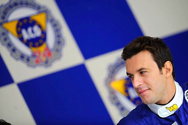 24 Hours of Le Mans (24 Heures du Mans 2011) @ the 79th Grand Prix of Endurance